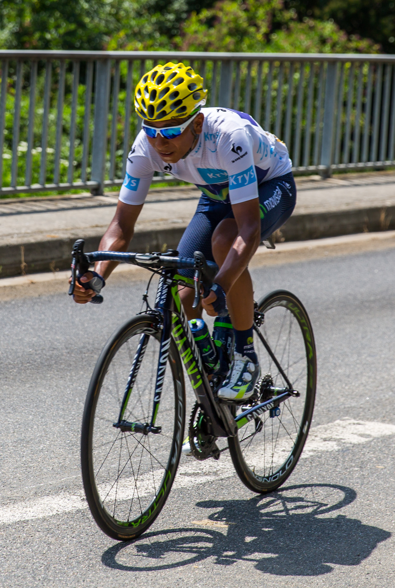 White jersey Nairo Quintana (MOV) during stage 13.